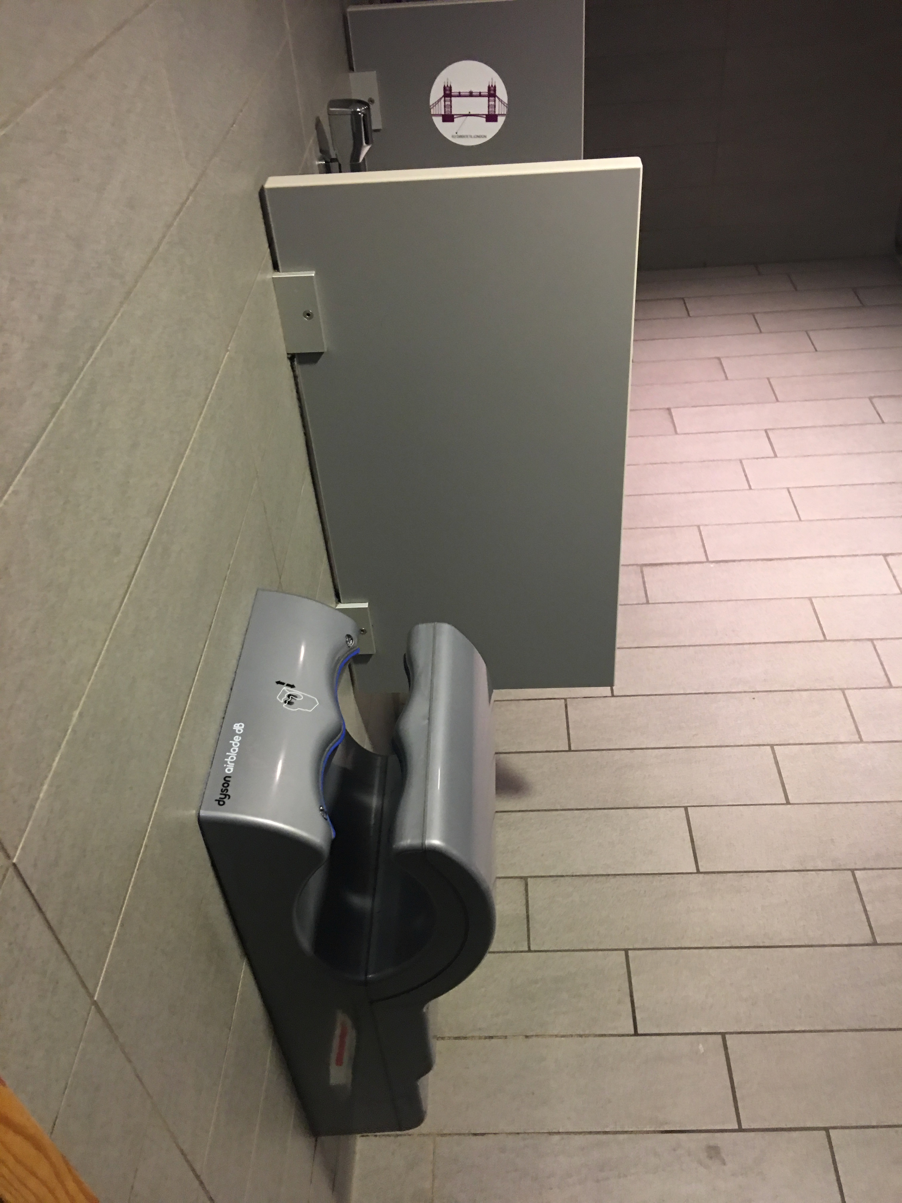 Hand dryer at public male toilet at Trondheim Airport Værnes, Norway, 2018-03-05